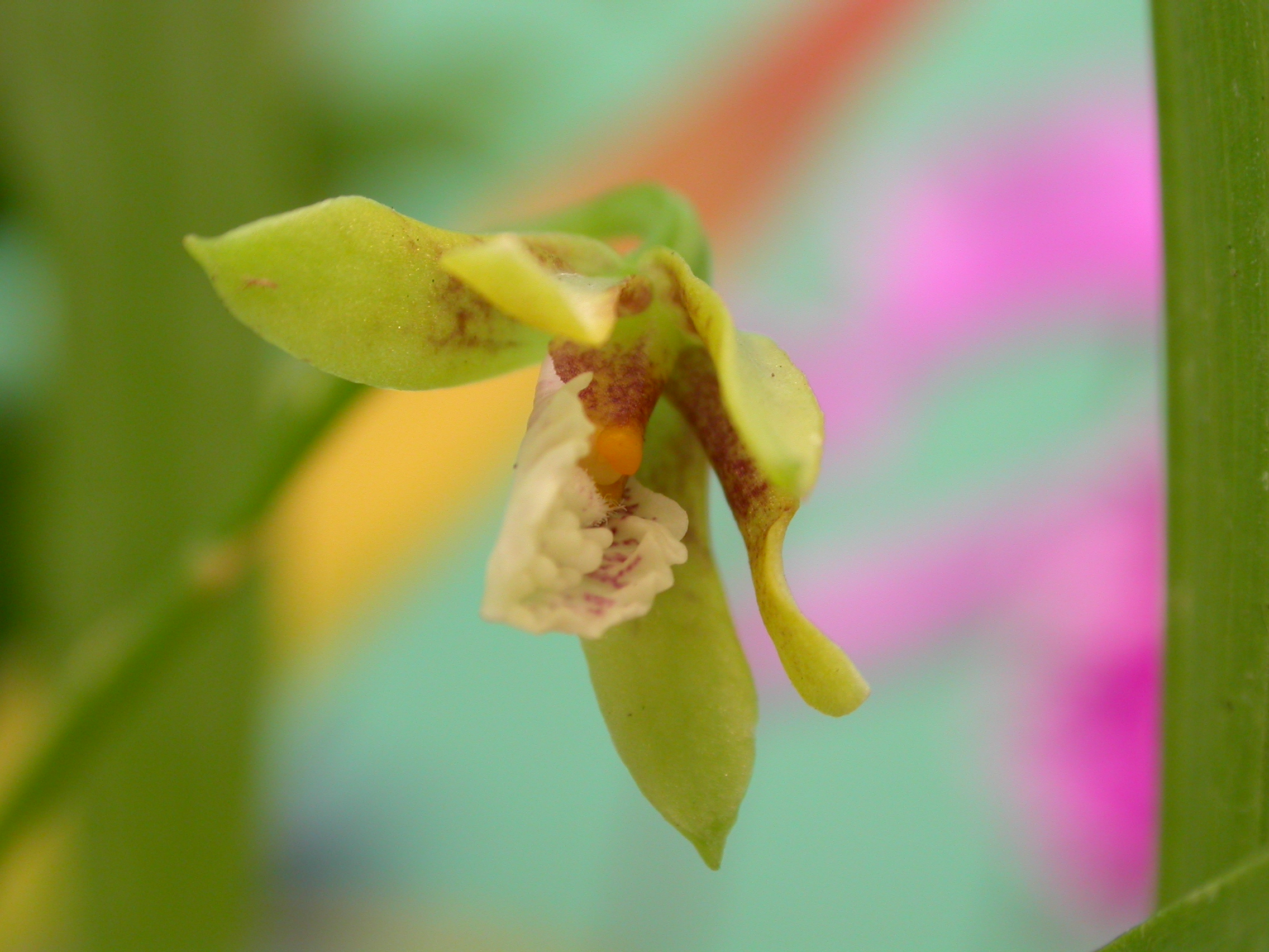 Pseudencyclia livida